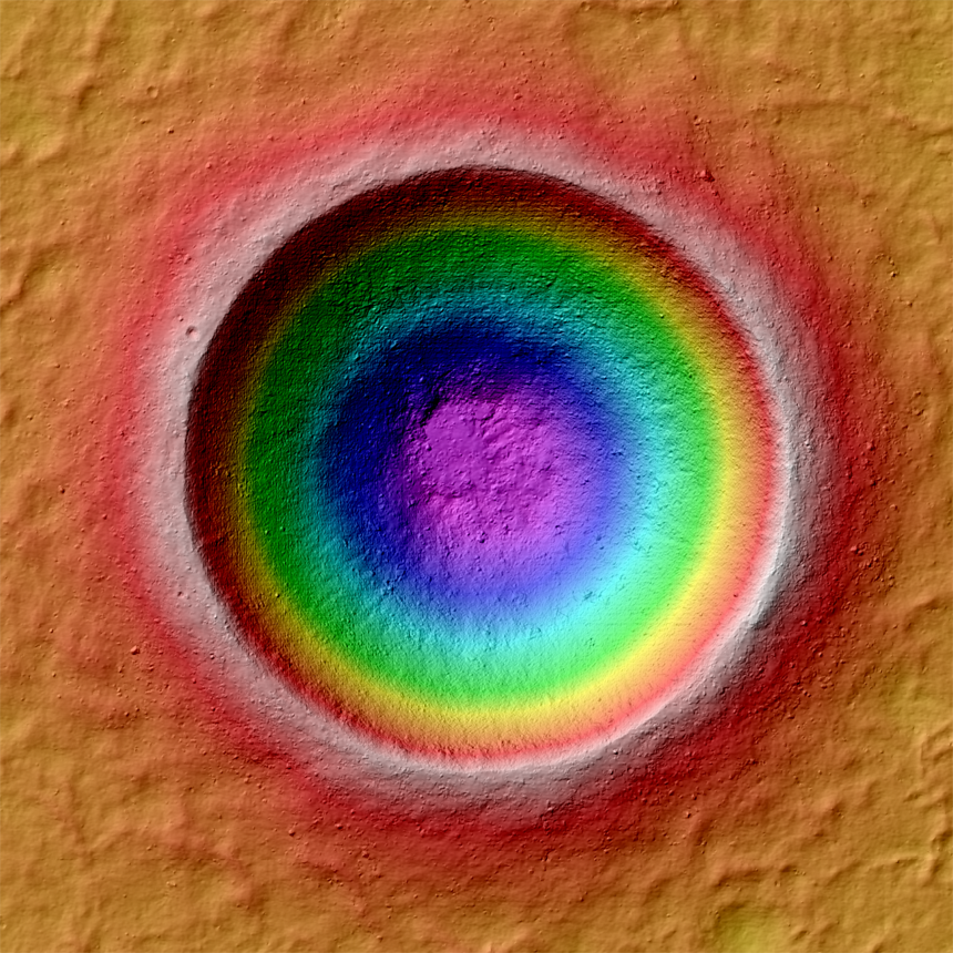 Barnstorming Linné crater: Color coded shaded relief map of Linné crater (2.2 km diameter) created from an LROC NAC stereo topographic model. The colors represent elevations; cool colors are lowest and hot colors are highest. Linné (2.2 km diameter) is a very young and beautifully preserved impact crater. LROC stereo images provide scientists with the third dimension - information critical for unraveling the physics involved in impact events. The LROC science team presented a first analysis of Linné crater topology at the Lunar and Planetary Science Conference last week. The high resolution topographic model also provides the means to make synthetic views of the crater from any angle. By creating hundreds of such views and slightly changing the view point for each image a dramatic fly around movie appears on the screen!